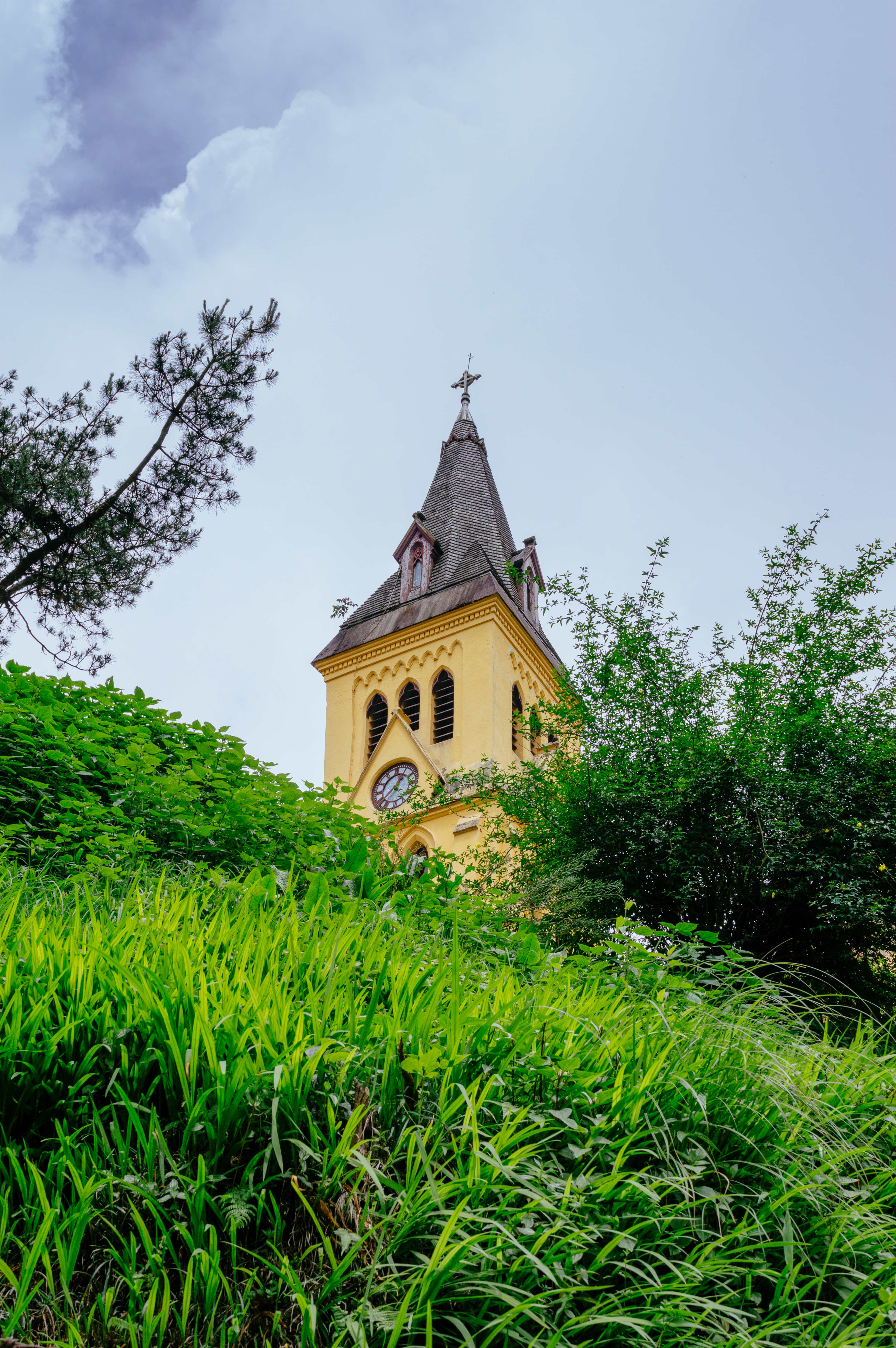 Situated close to the Mall, this church was established in the year 1843. It is an old Anglican Church.